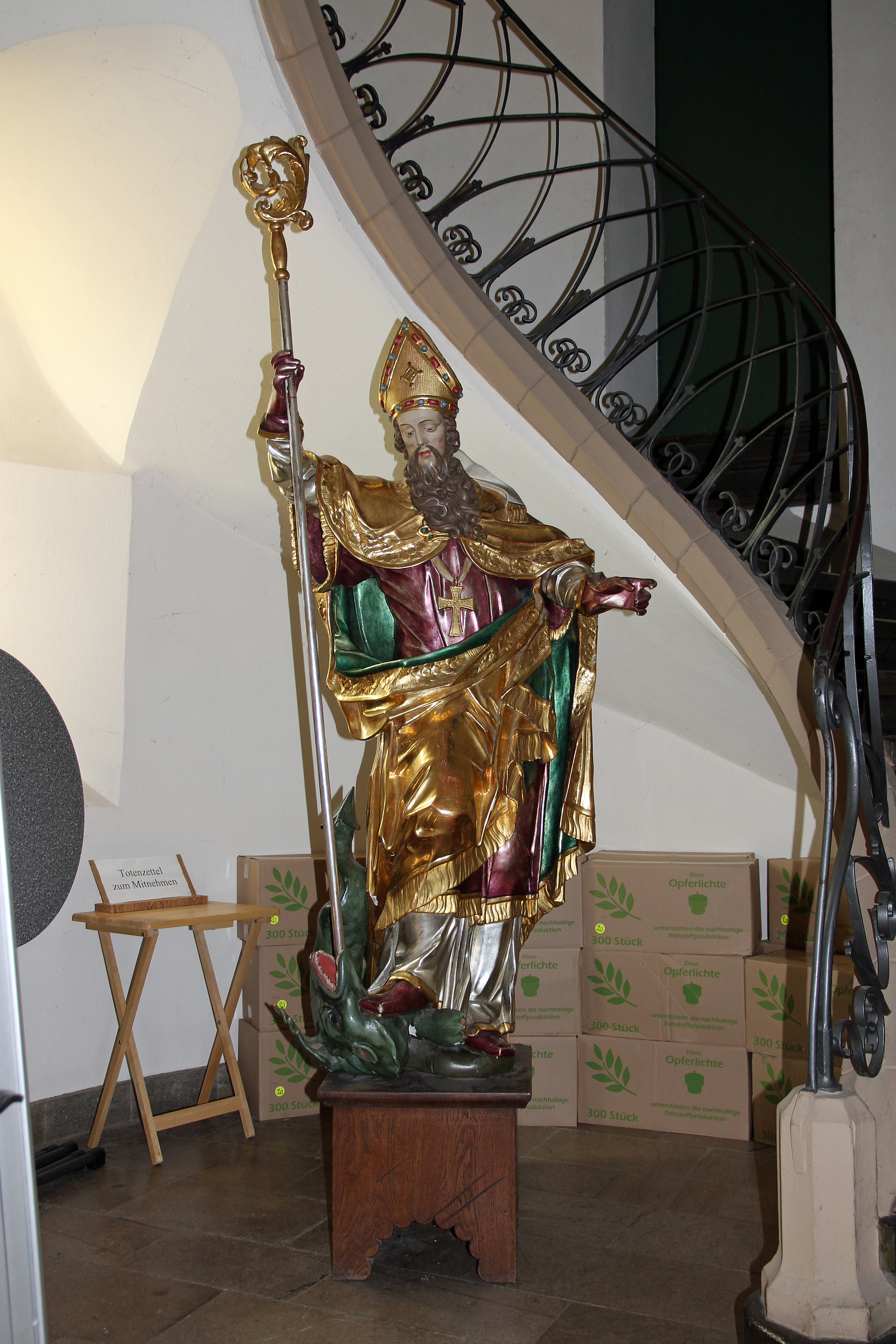 St. Servatius church in Koblenz